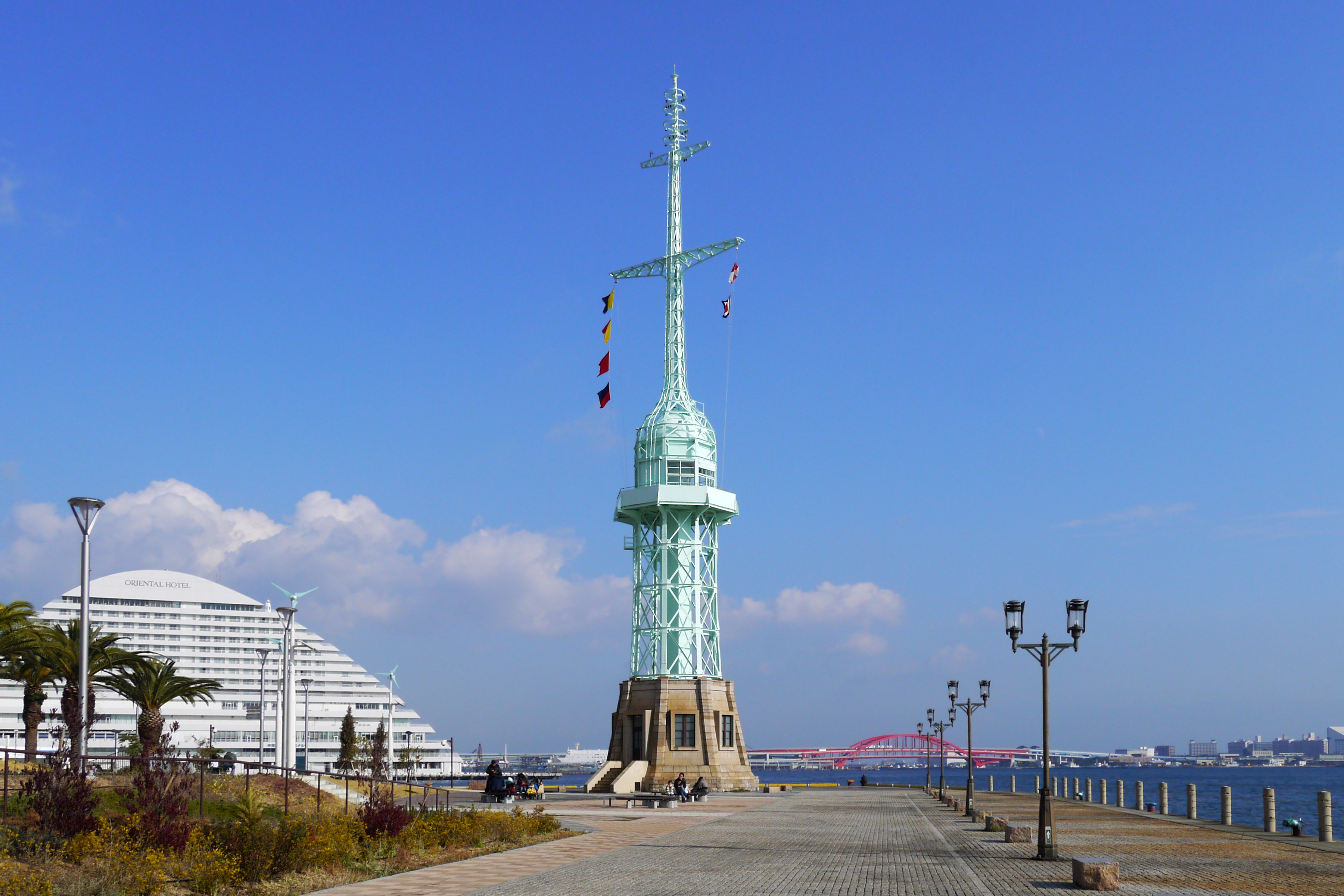 Old Kobe Harbor Signal Tower (旧神戸港信号所), Kobe, Hyogo prefecture, Japan